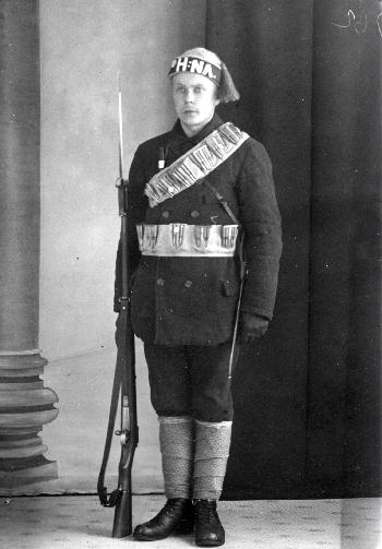 Finnish civil war red soldier